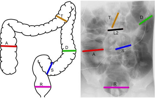 Main measuring sites of large intestinal diameter when assessing constipation in children.